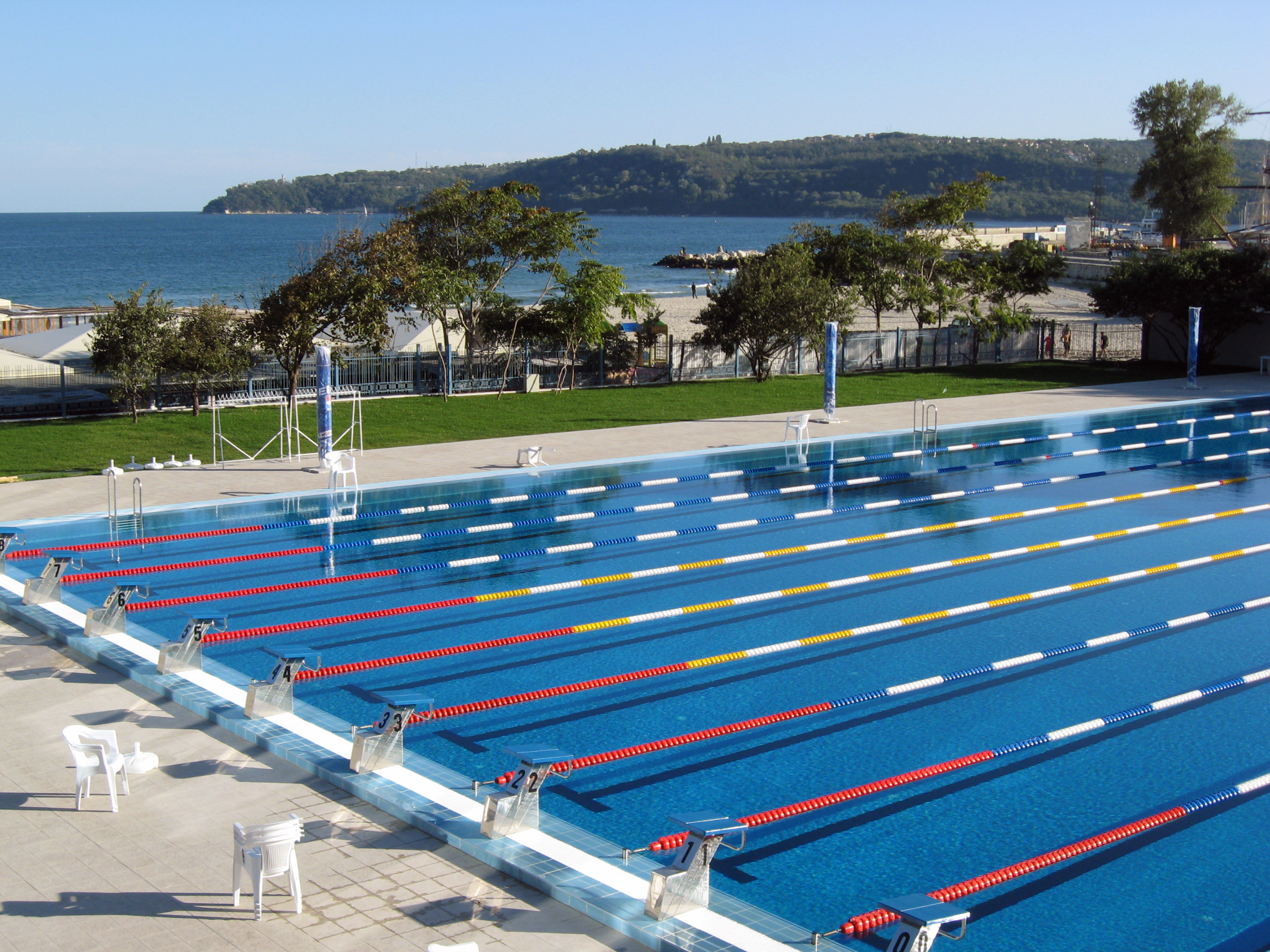 Olympian Swimming pool in Sea Garden, Varna, Bulgaria